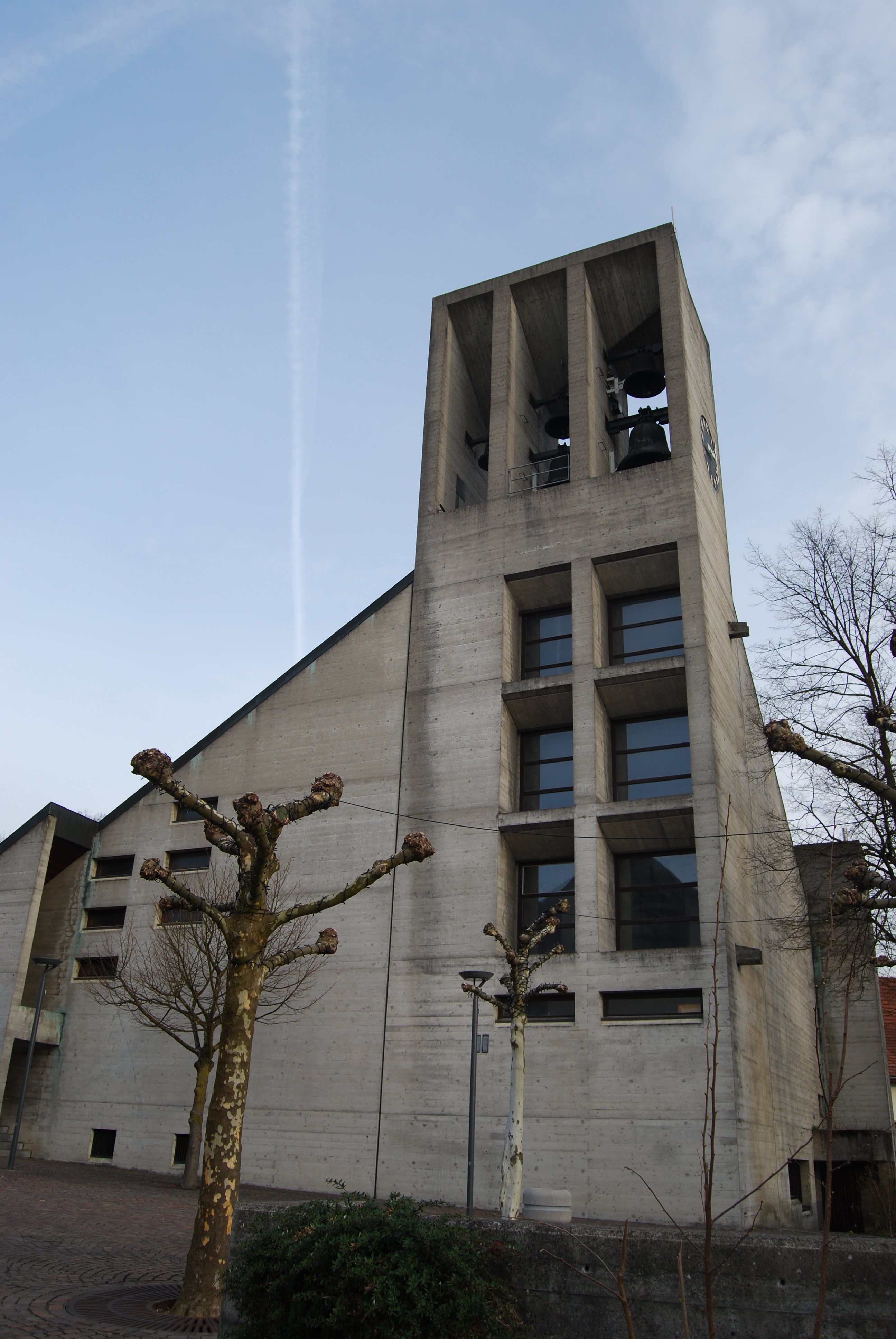 Church of Oberglatt, canton of Zürich, SwitzerlandEsperanto: Preĝejo de Oberglatt, Kantono Zuriko, Svislando